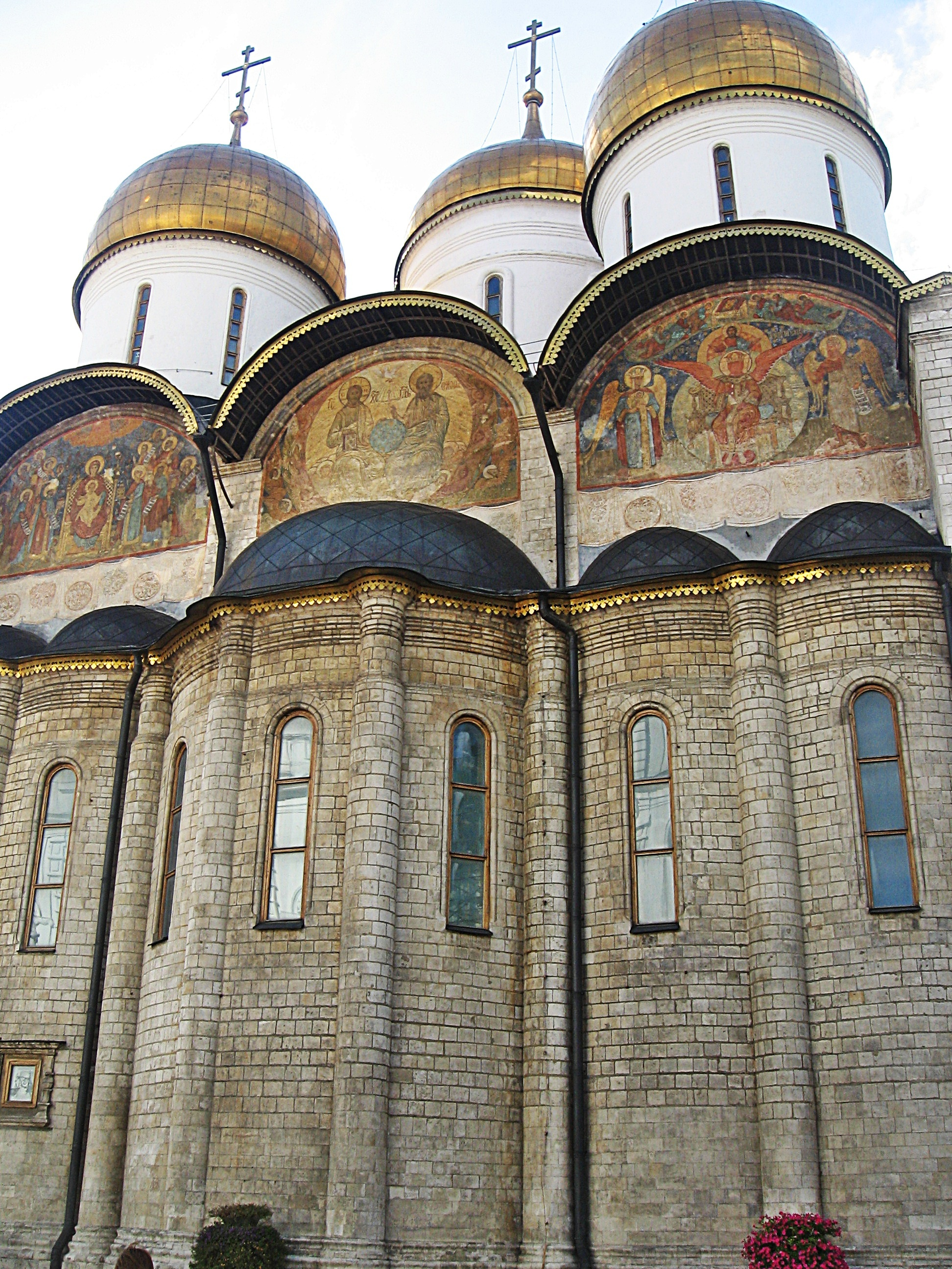 cathedral